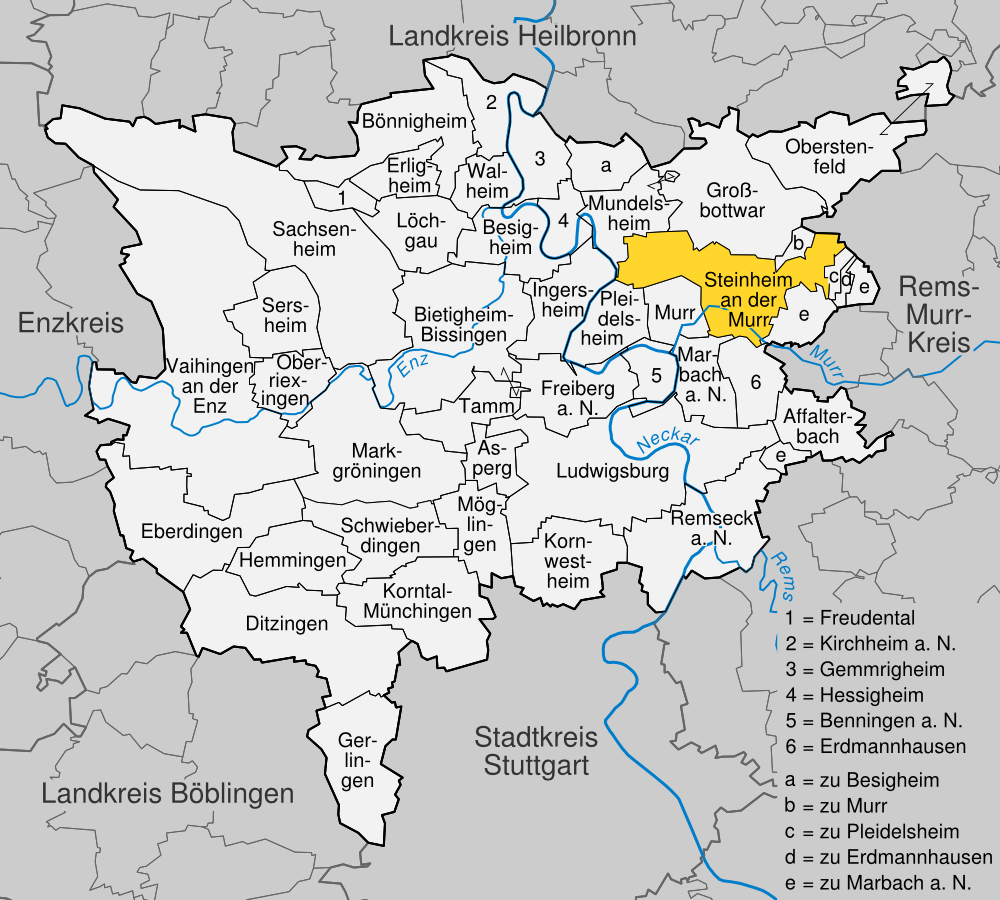 position of Steinheim within distict of Ludwigsburg, Baden-Württemberg, Germany